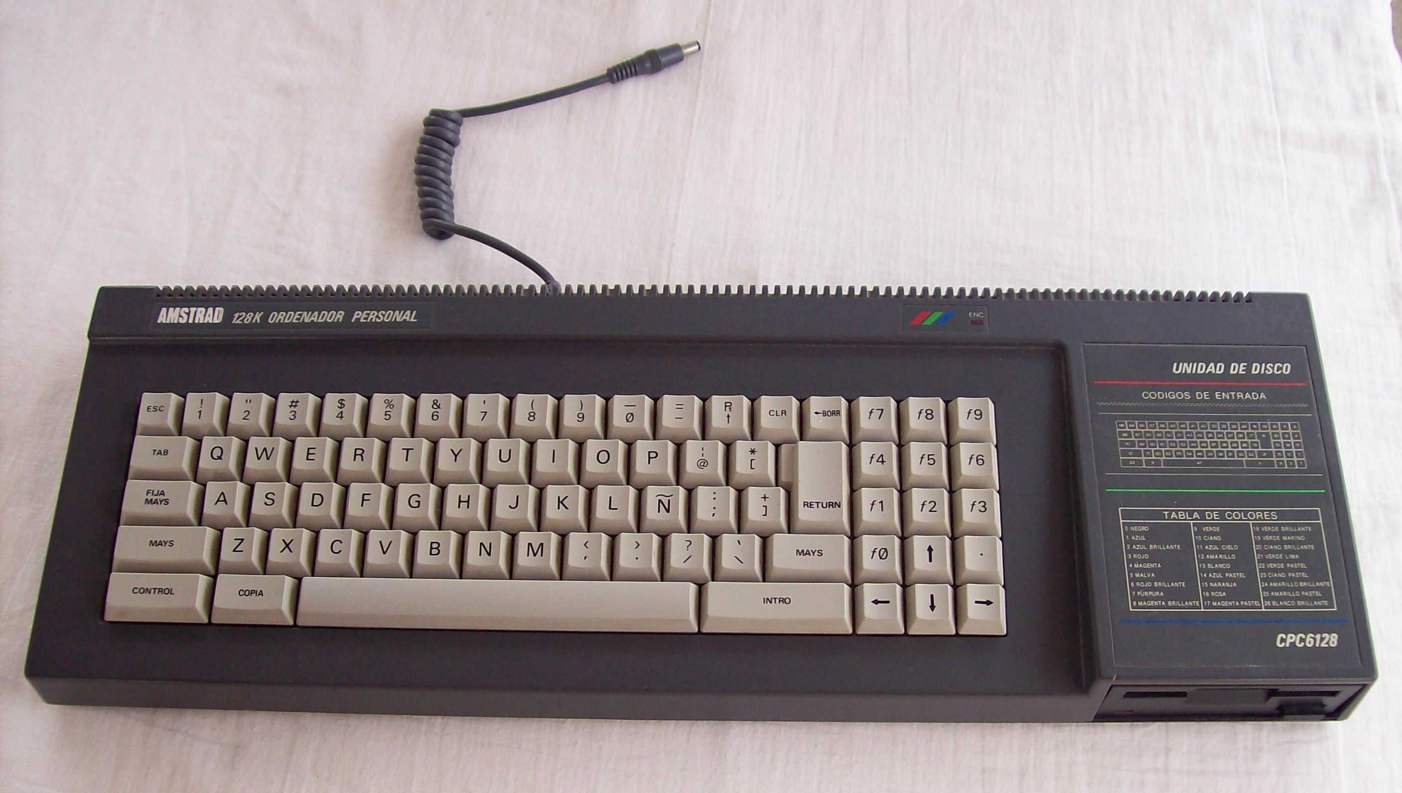 Amstrad CPC6128 with Spanish keyboard layout